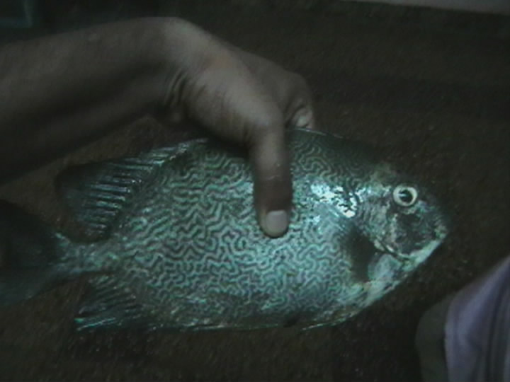 Juveniles live among mangroves then move out to lagoon and coastal reefs as they mature. Forms schools. Feeds on algae growing on sea grasses, mangrove roots and rocks. Adults congregate inshore in groups of several hundreds to spawn in summer. Spawning is by pairs; sticky eggs laid on the bottom. Its very high quality flesh commands premium prices (Ref. 9813). Adults on coastal reefs, subject to strong currents (Ref. 48637). This species can tolerate very low salinity (2 ppt) and temperatures up to 38 C.